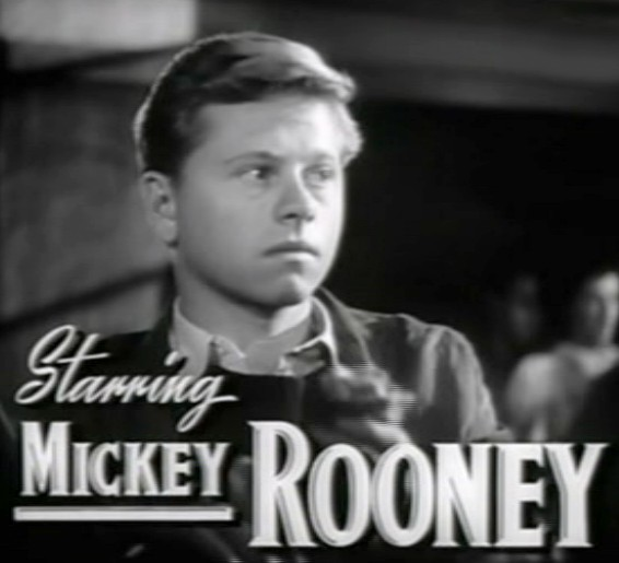 Cropped screenshot of Mickey Rooney from the trailer for the film The Human Comedy.